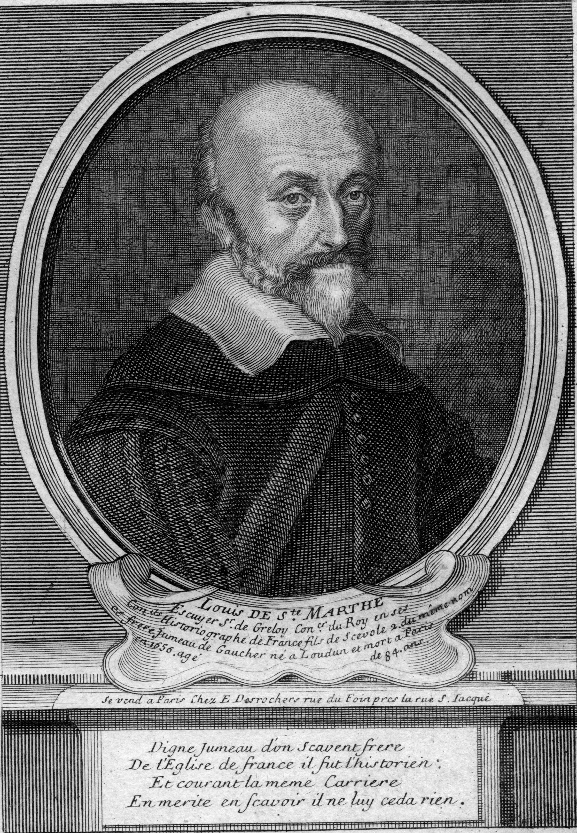 Engraved portrait. It reads Louis de Ste Marthe Escuyer St. de Greloy Con.er du Roy en ses Con.ils Historiographe de France fils de Scevole 2. du meme nom et frere jumeau de Gaucher ne a Loudun et mort a Paris en 1656 age de 84 ans Digne Jumeau d'un scavent frere De l'Eglise de france il fut l'historien Et courant la meme Carriere En merite en fcavoir il ne luy ceda rien